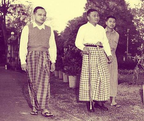 U Nu with U Thant on an early morning walk in Windermere Park where they both lived.